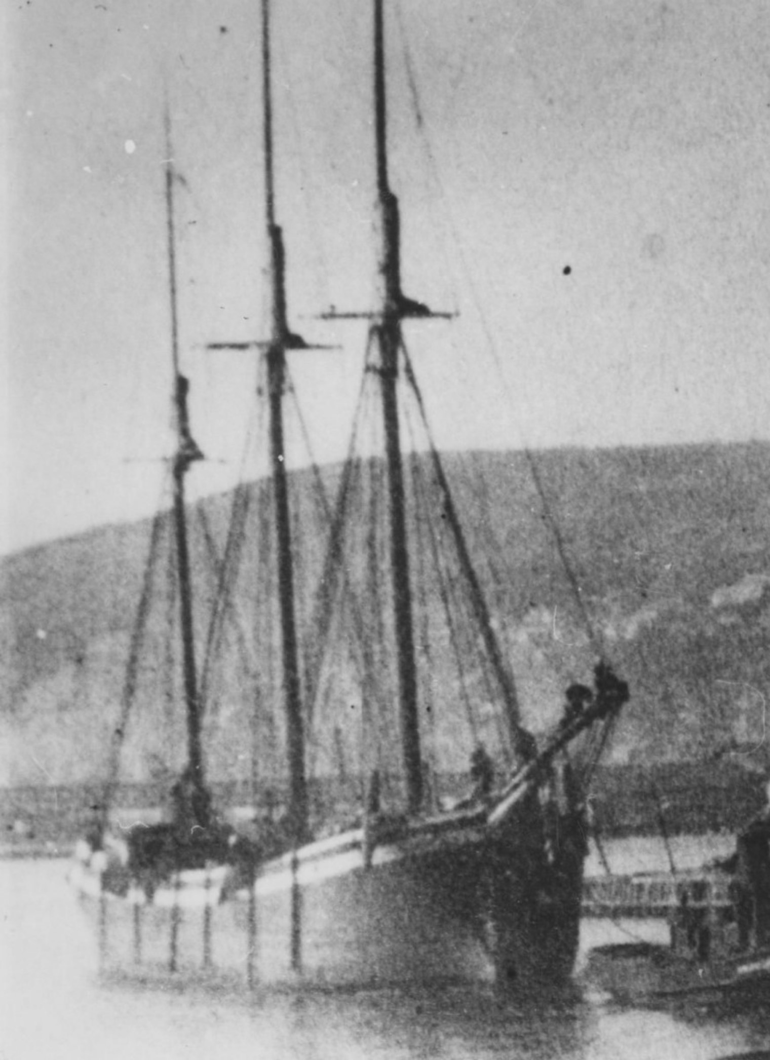 The schooner Samuel P. Ely in Detroit, Michigan